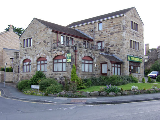 A reminder of the railway at Addingham